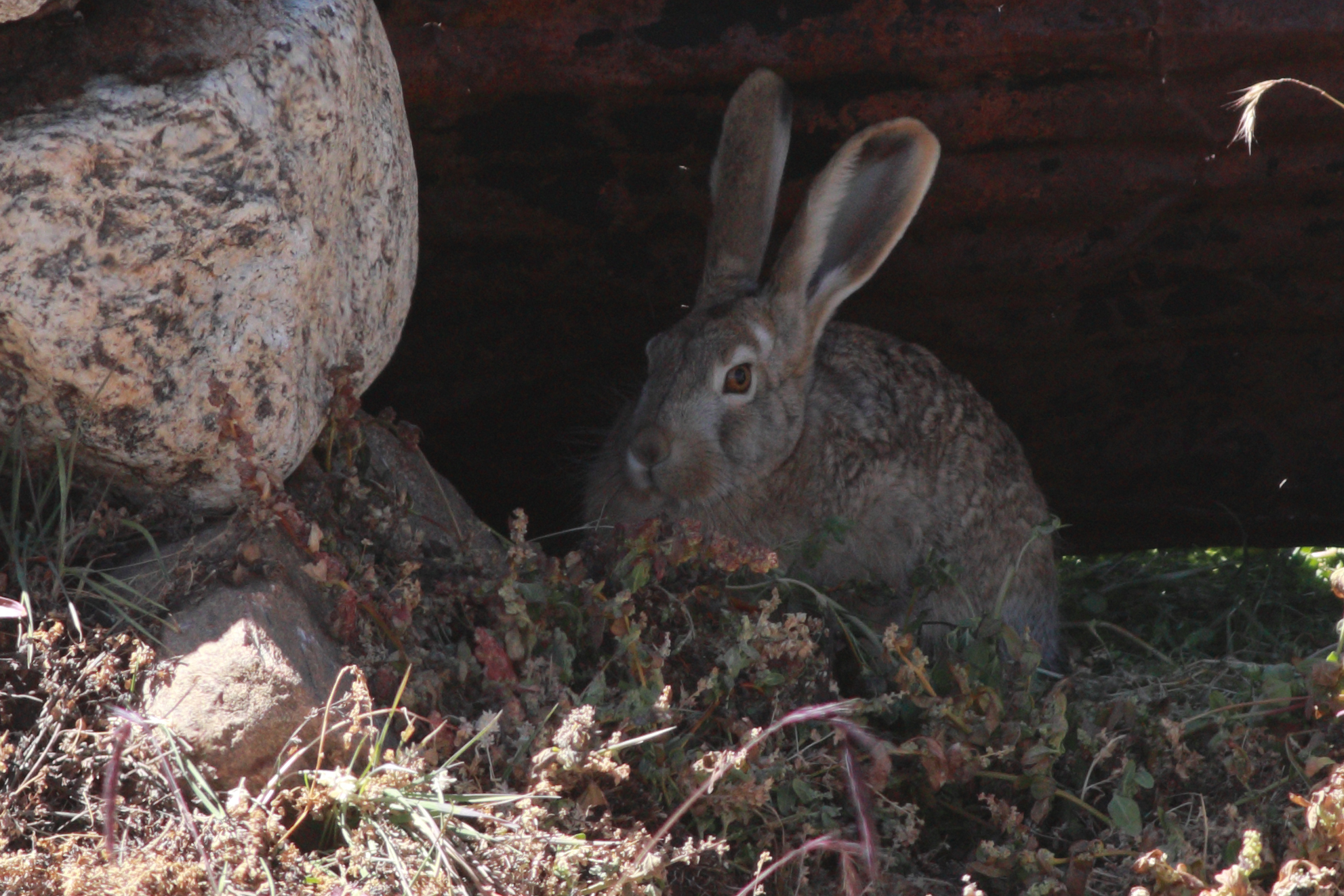 The species Wooly Hare had been photographed from north Sikkim, India on 16.10.2019.